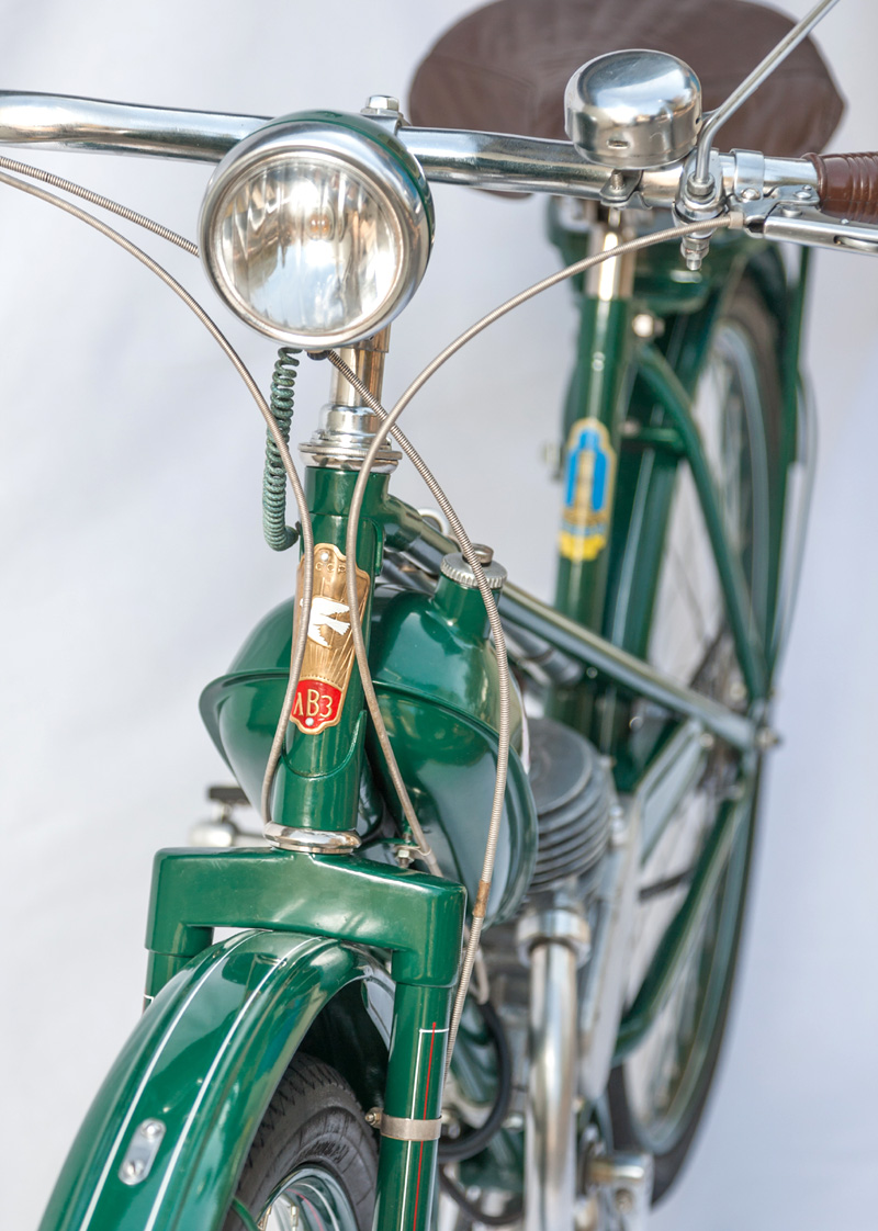 USSR motorized bicycle W-902 (1960) with D-4 engine